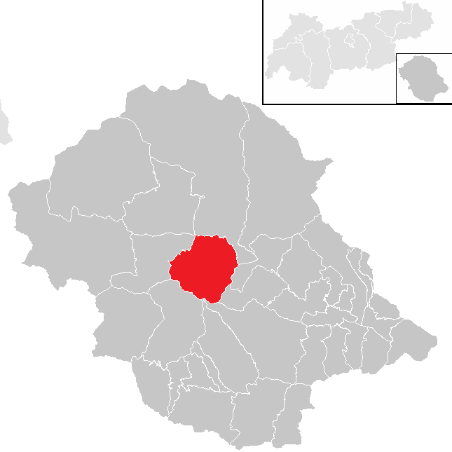 District Lienz